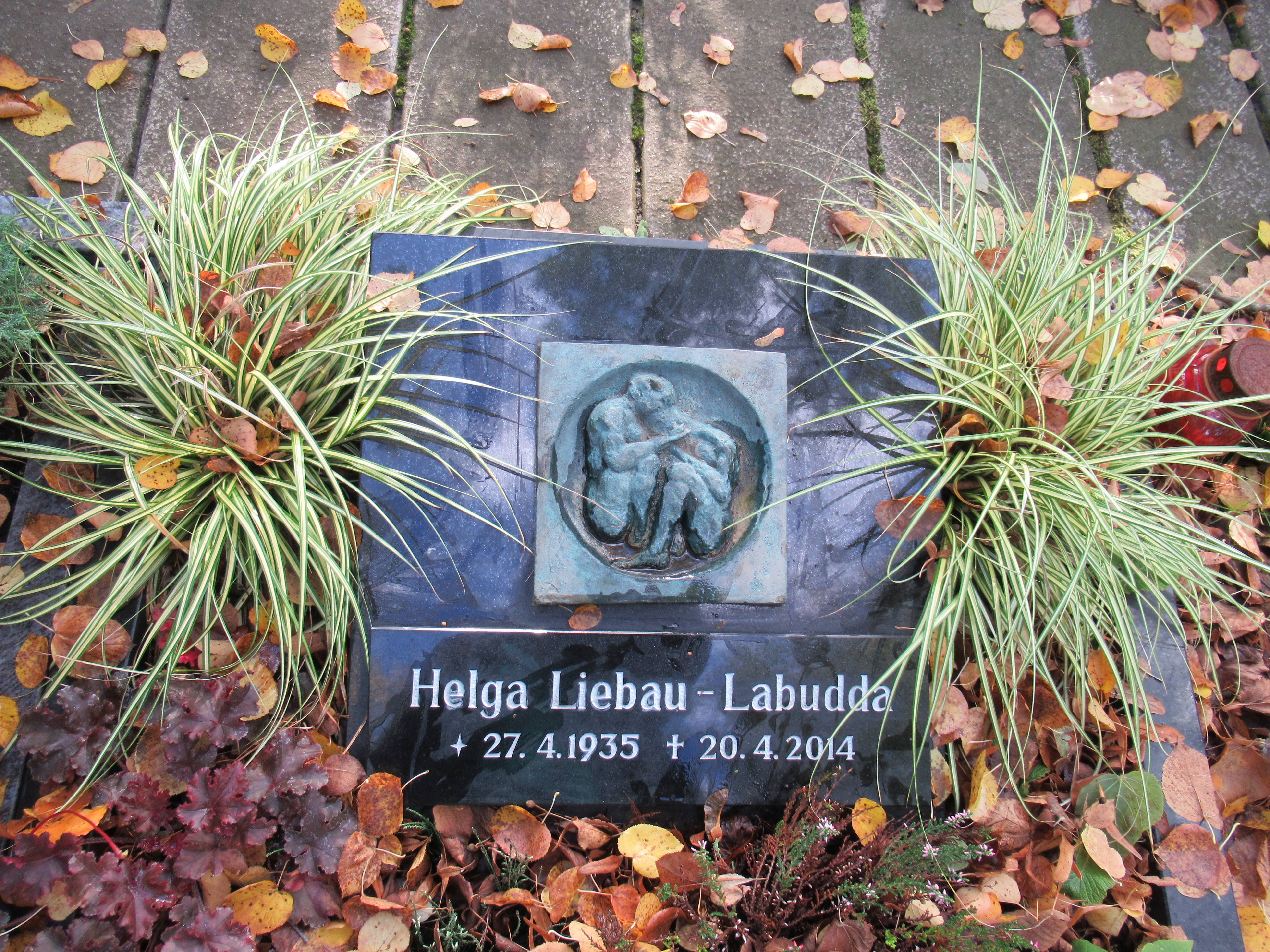 Grave of German actress Helga Labudda at Friedhof Kaulsdorf in Berlin-Kaulsdorf